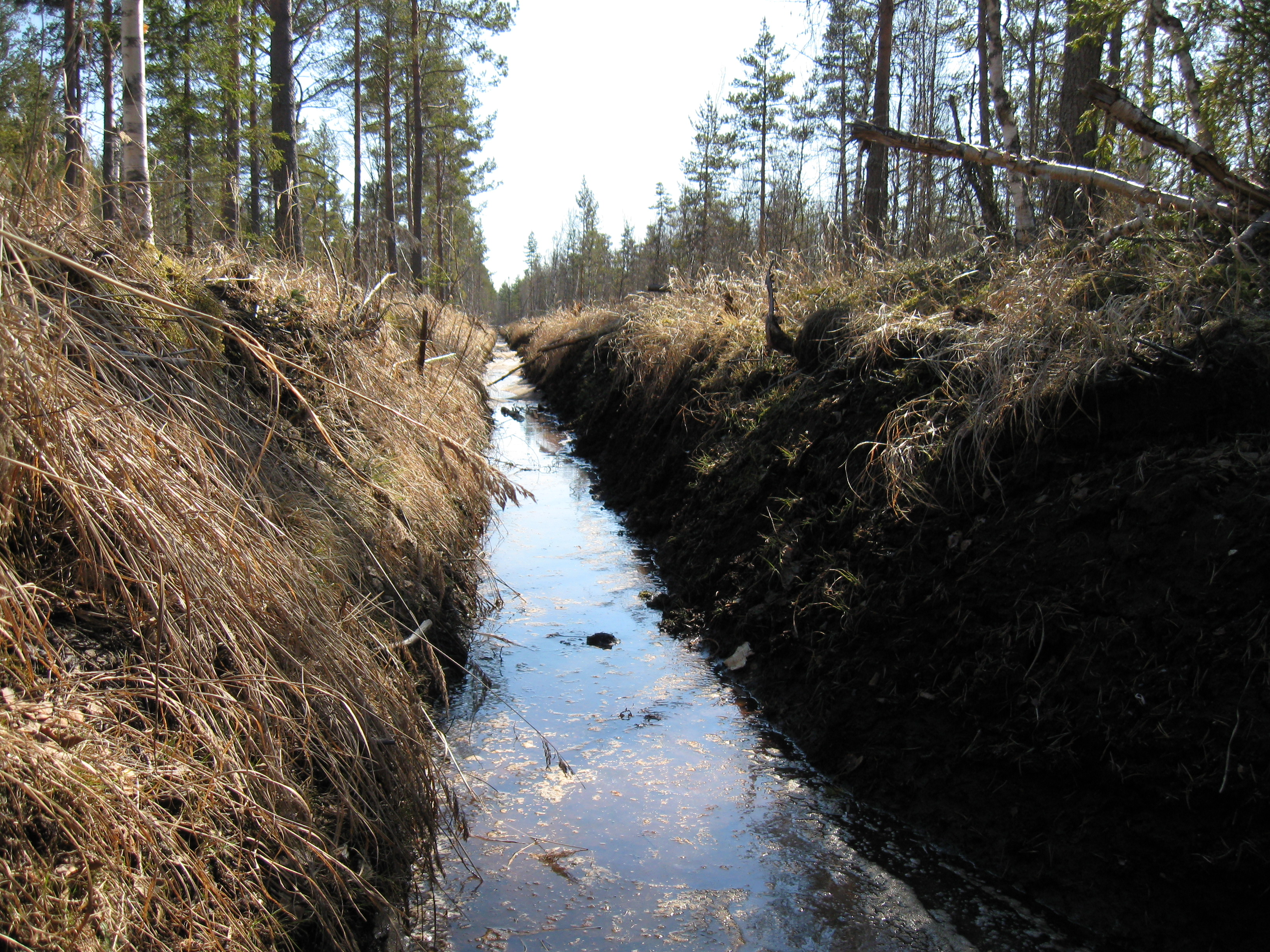 A forest ditch in Utajärvi, Finland.